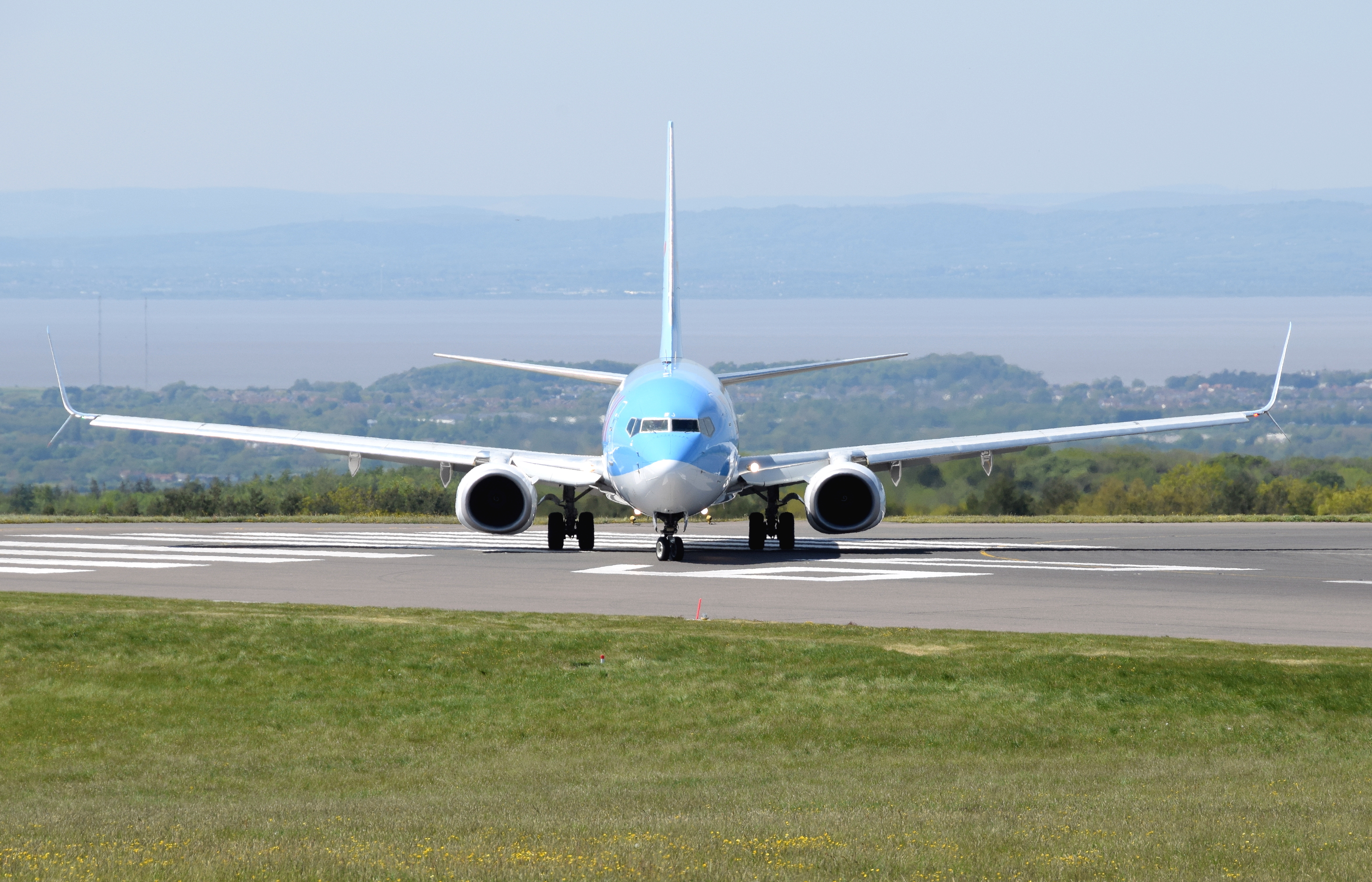 Wing and tail dihedral nicely seen on a TUI Airways Boeing 737-800 (G-TAWJ). The aircraft is lining up for take off, at Bristol Airport, England. In the distance is the wide River Severn and beyond are the hills of Wales. The two verical lines on the left are radio aerials.